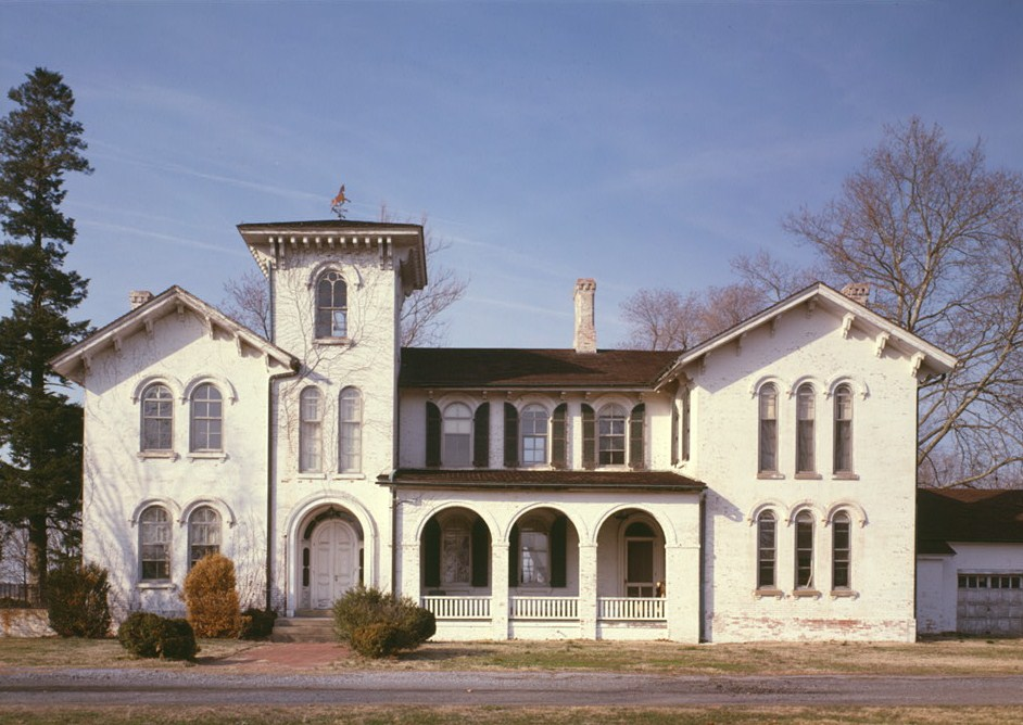 Governor William H. Ross House, State Route 543, Seaford vicinity (Sussex County, Delaware). It is on the National Register of Historic Places. Object location38° 38′ 36″ N, 75° 36′ 36″ W